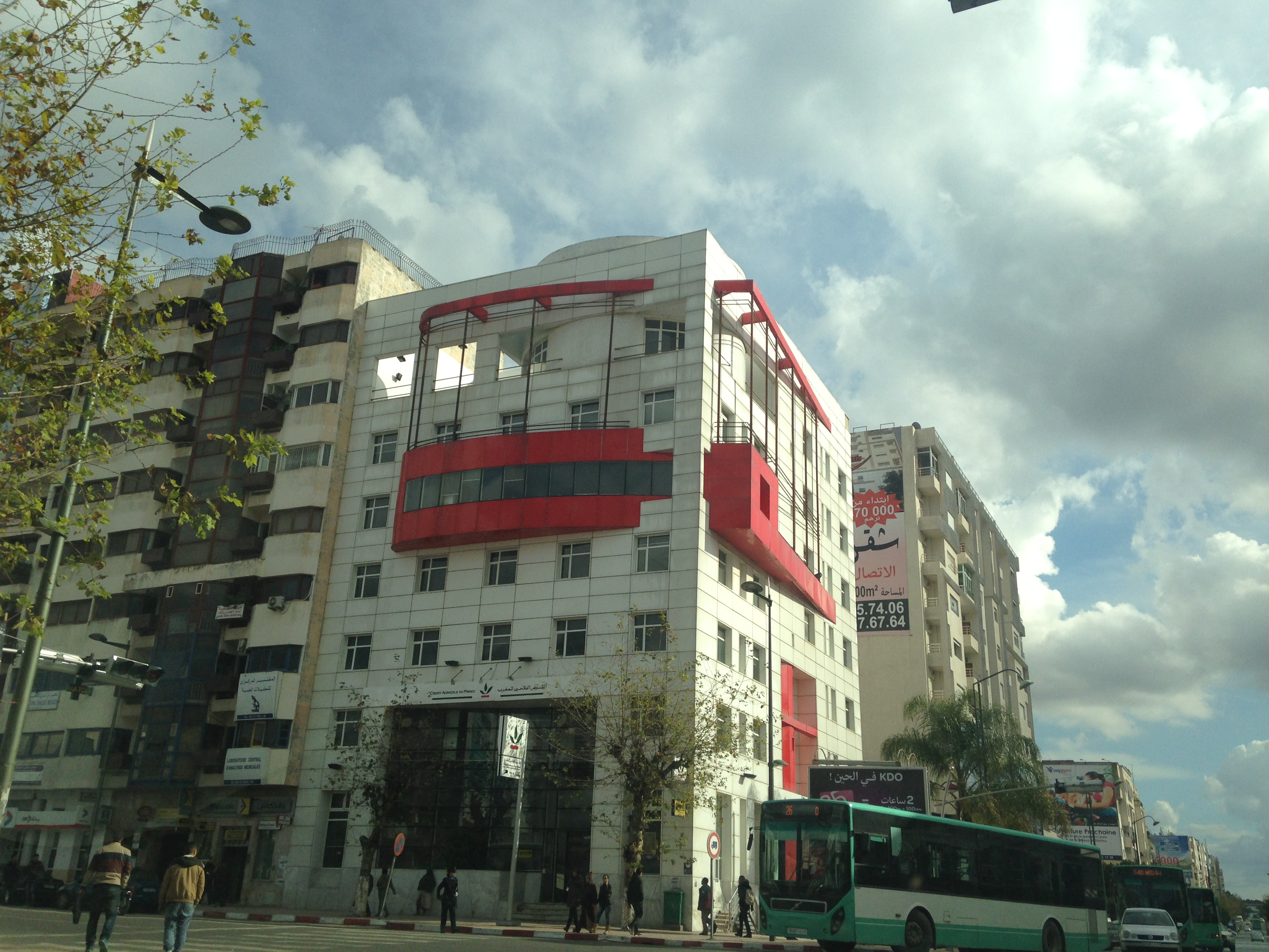 Downtown of Kenitra (Morocco)